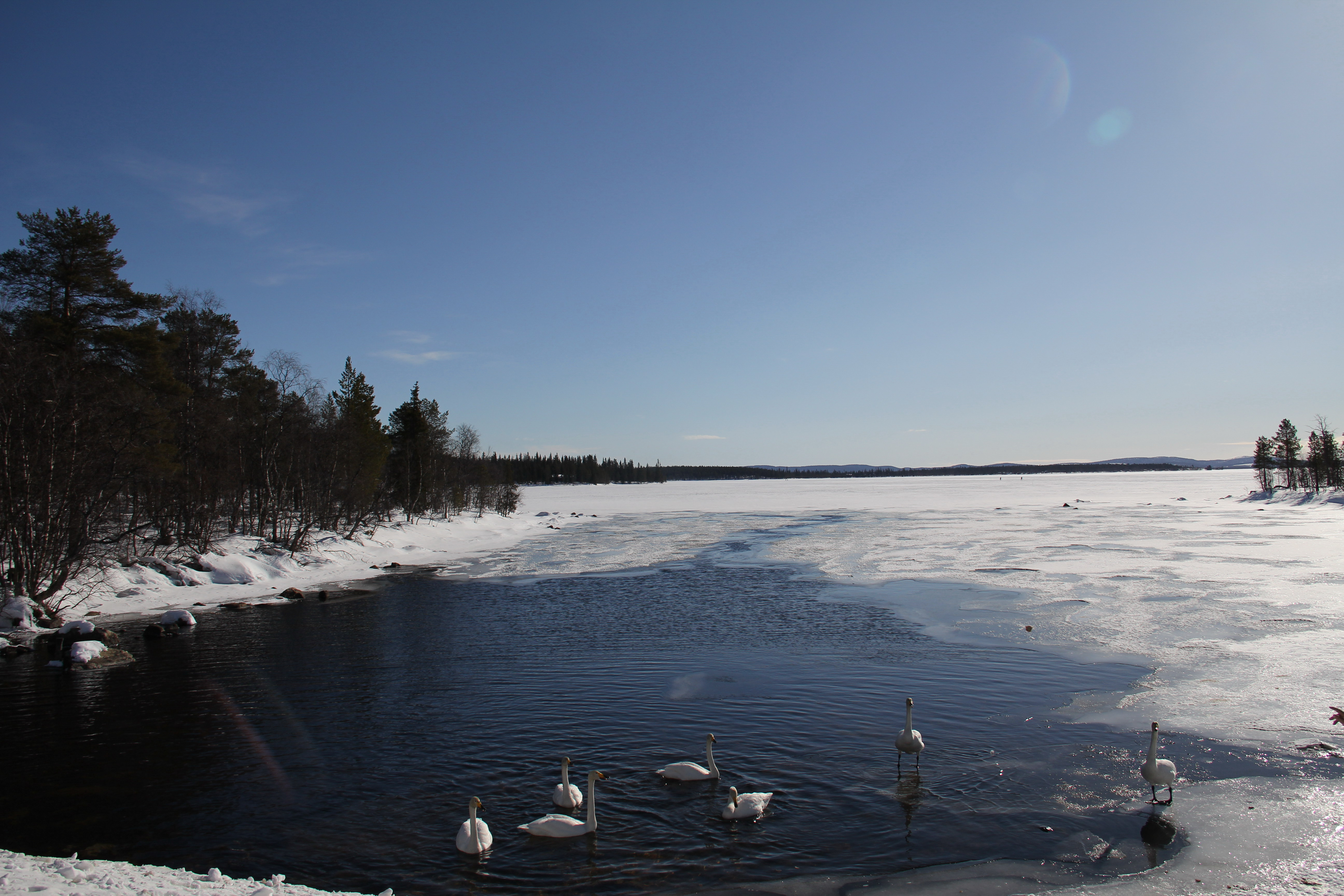 Cygnus cygnus (whooper swan) family swimming in Kutuniva, Lake Jerisjärvi, Muonio, Finland. On the right, a hand feeding the swans.